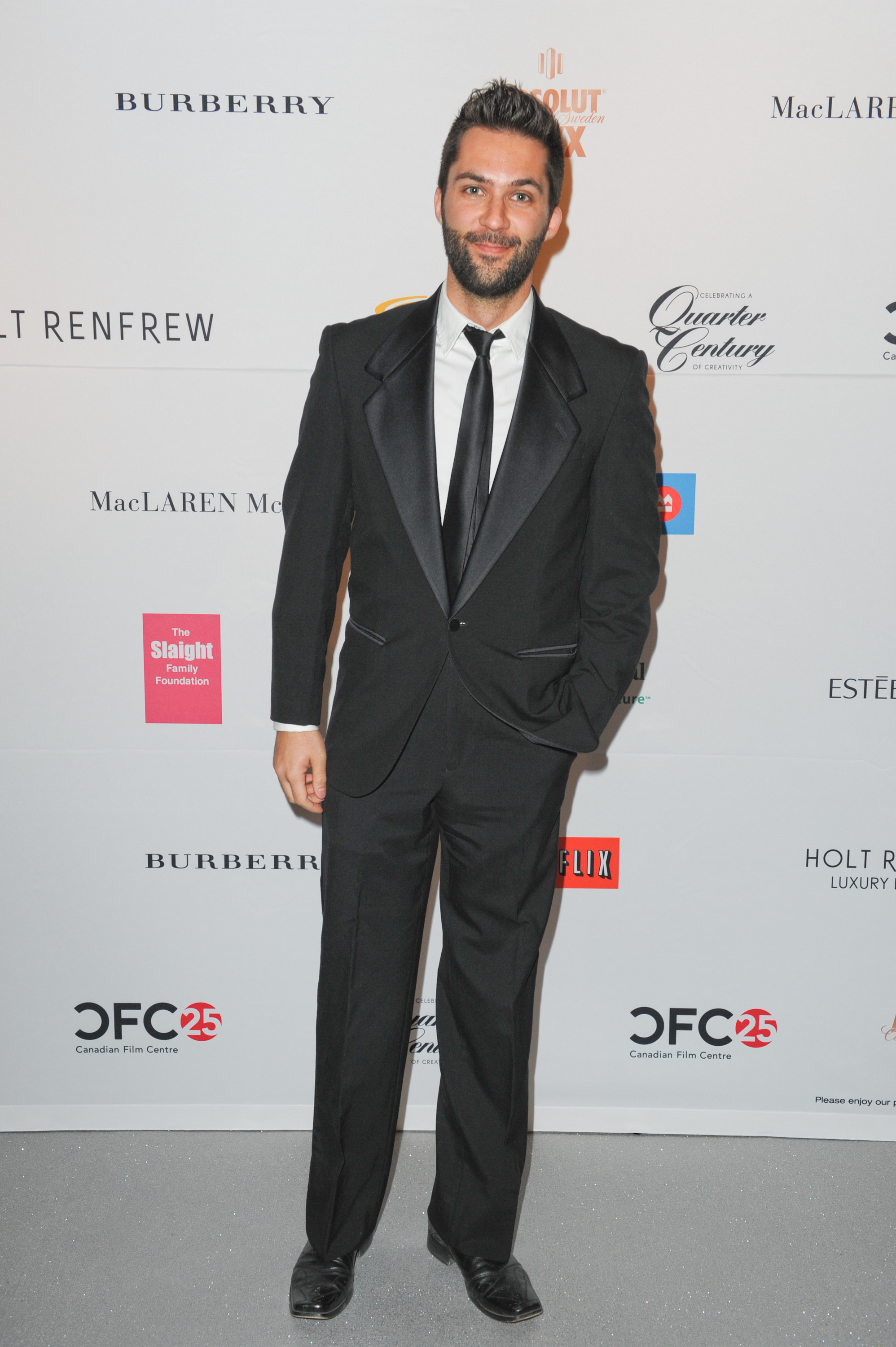 David Cormican at the 2013 CFC Annual Gala & Auction.